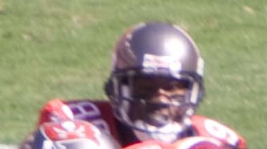 Earnest Graham of the Tampa Bay Buccaneers is about to be tackled as he rushes during a game against the Washington Redskins.